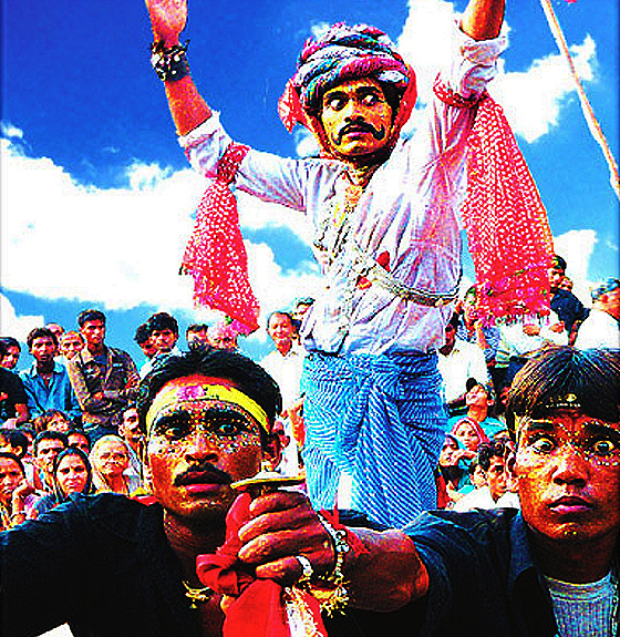 Bhils created Gavari plays about neighborhood issues as well as myths and history. The Bhanjara play features the recurrent conflict between affluent gypsy traders and Meena tribal highwaymen seeking "road tolls".